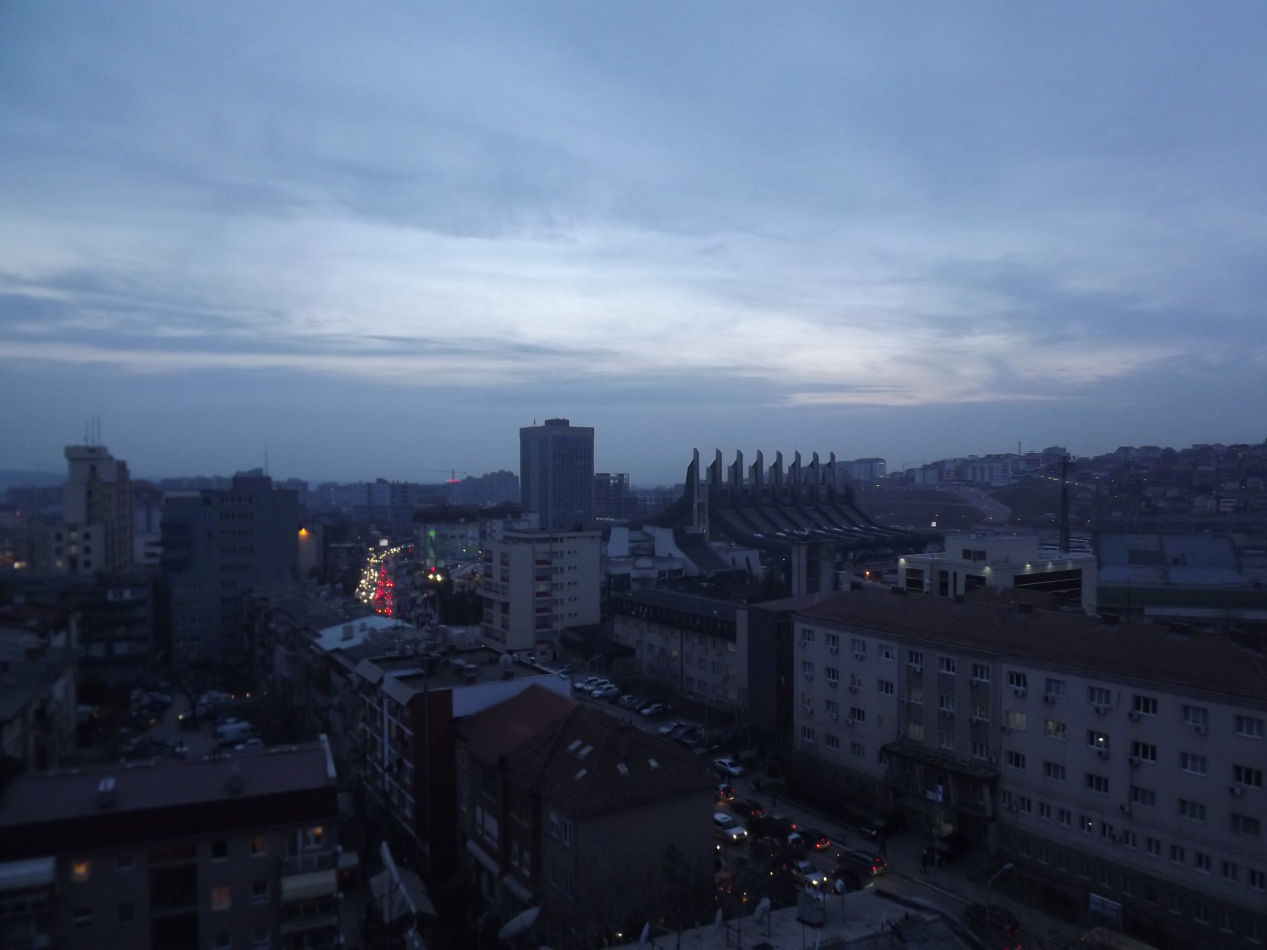 prishtina